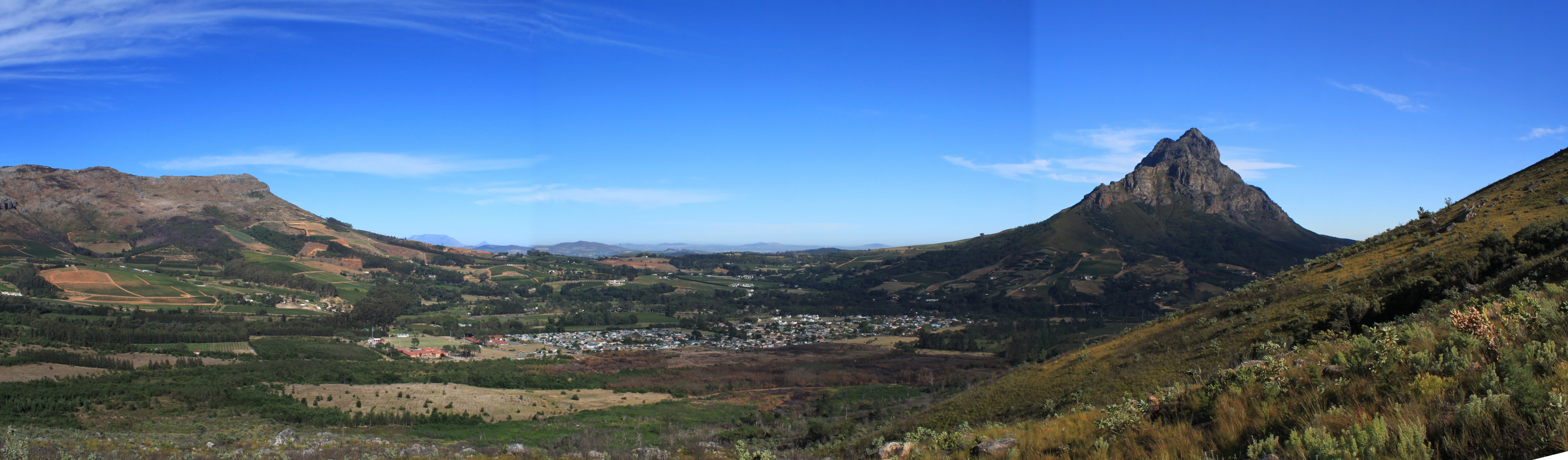 A view of the town of Kylemore, taken from the Groot Drakenstein mountains above the town. Simonsberg mountain is seen on the right.